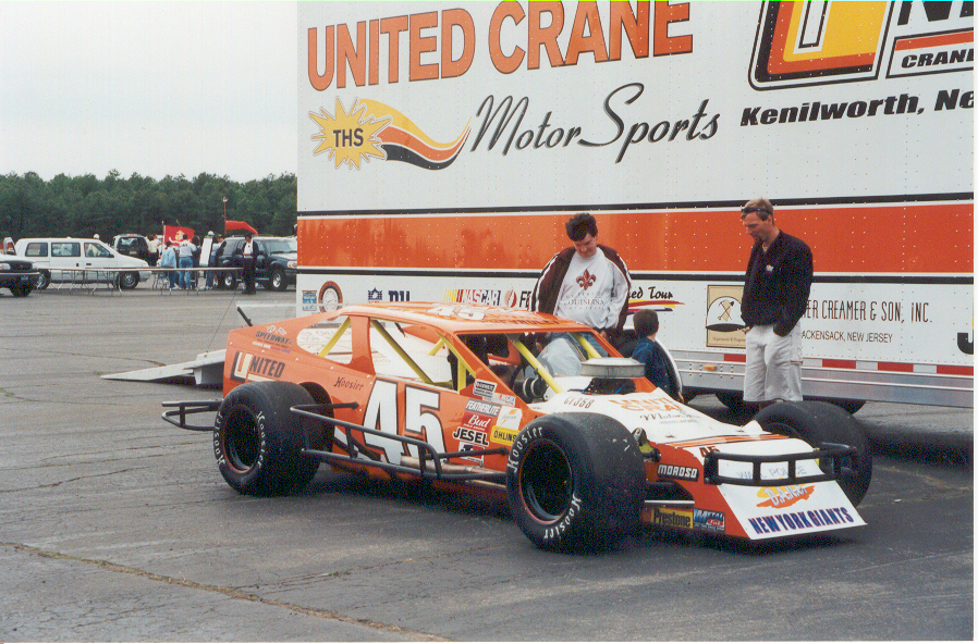 NASCAR Modified racecar #45 showcar